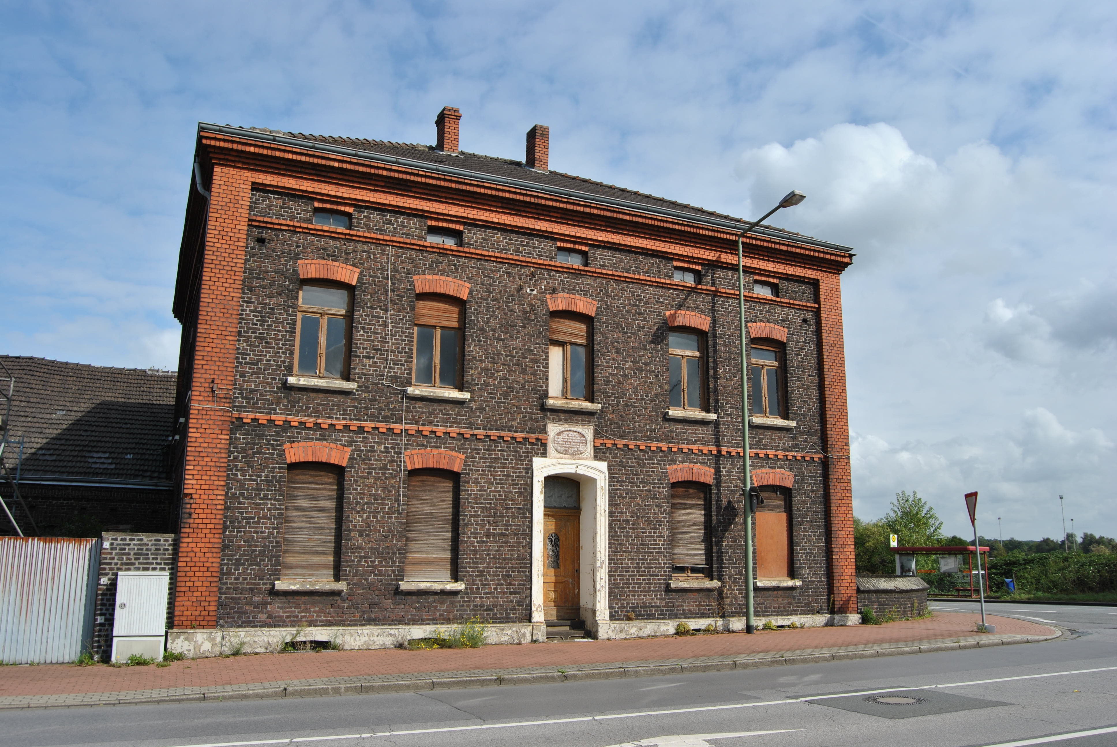 This photograph was taken with a Nikon D3000 This image shows a heritage building in Germany, located in the North Rhine-Westphalian city Duisburg. Scholtfeldhof in Duisburg-Asterlagen